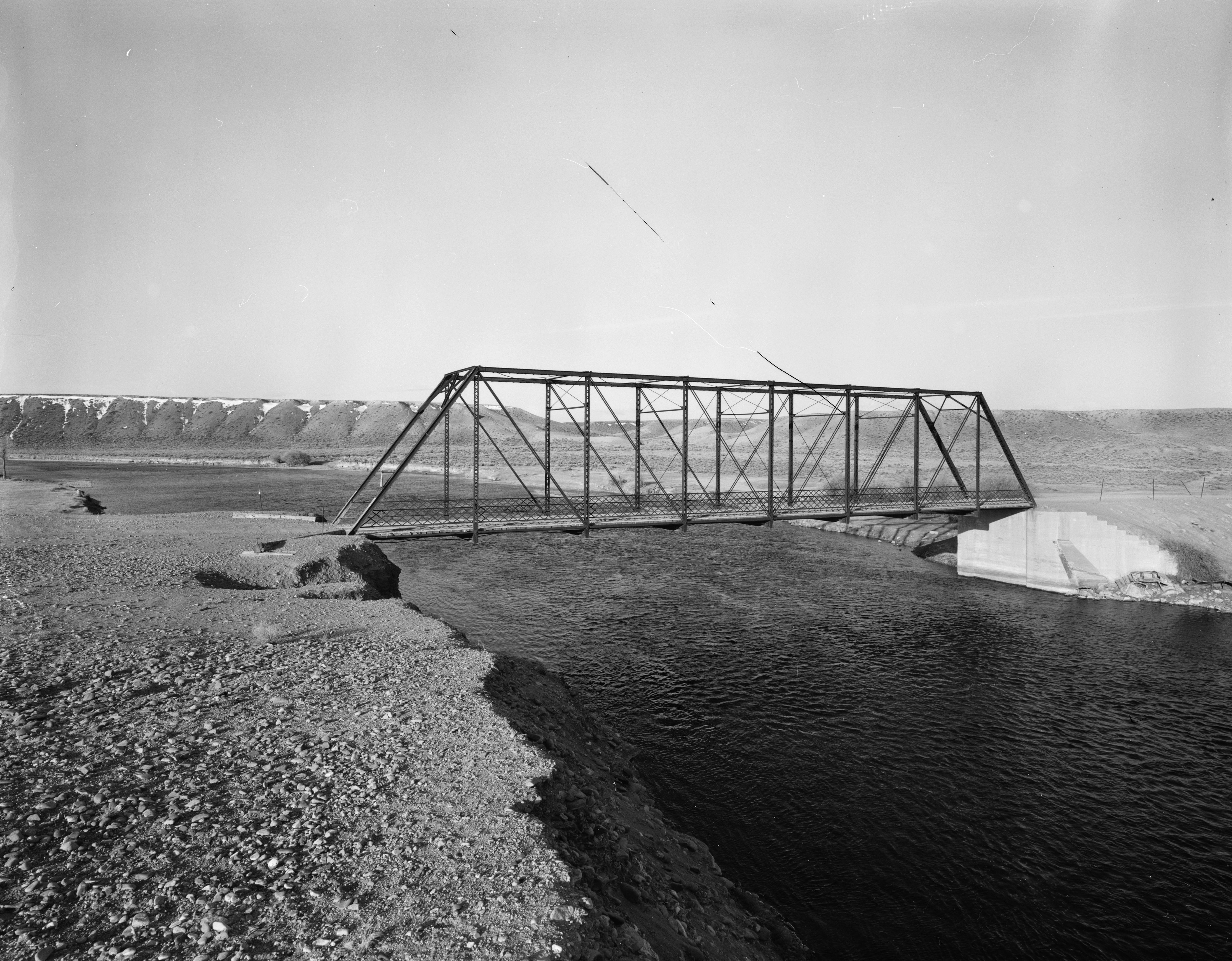 Northern side of the ETD Bridge over Green River, which carries County Road CN4-8SS over the Green River (Utah)Green River near Fontenelle in Sweetwater County, Wyoming, United States. Built in 1913, this Pratt through truss bridge is listed on the National Register of Historic Places.